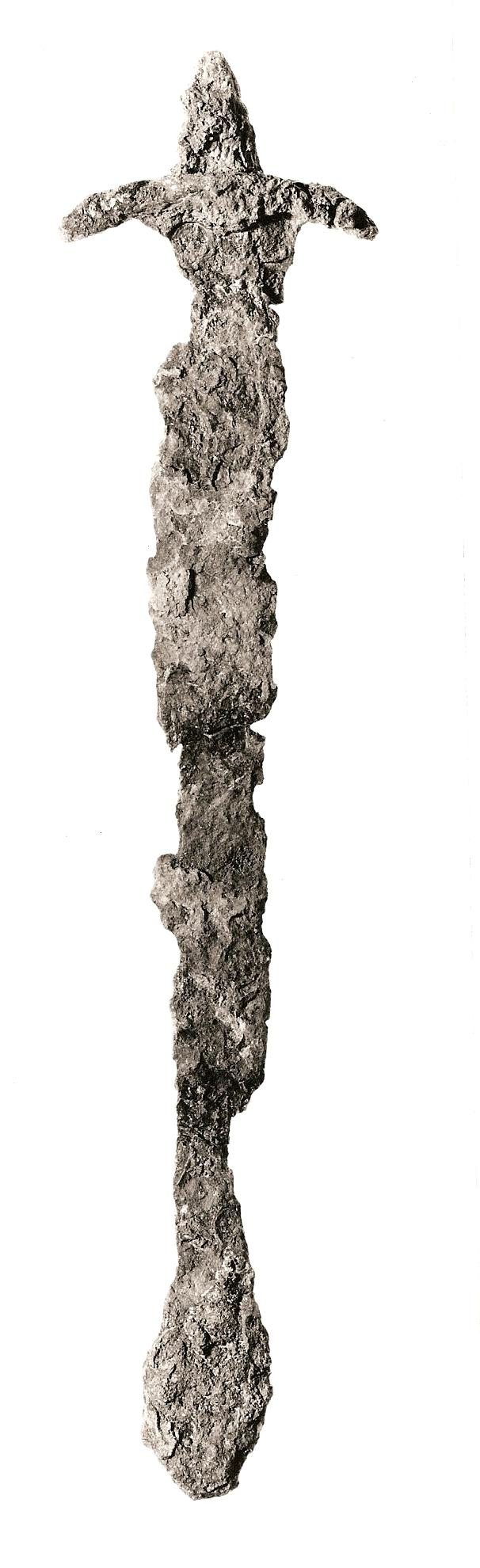 A old sword from Steinvik in Skatval, Stjørdal municipality in Norway. The sword was found by Arnt Steinvik, and later sent to a museum (NTNU Museum of Natural History and Archaeology), where the sword is today. This picture is a scan of Arnt Steinvik's picture of the sword (the picture A. Steinvik recieved after he gave the sword to the museum). Size: 1:1Norsk bokmål: Et gammelt sverd fra Steinvik i Skatval i Stjørdal kommune, Nord-Trøndelag. Sverdet ble funnet av Arnt Steinvik, og senere sent til Vitenskapsmuseet i Trondheim, hvor det fortsatt befinner seg. Bildet er en scannet versjon av bildet Arnt Steinvik mottok fra Vitenskapsmuseet i 1991. Størrelse: 1:1.